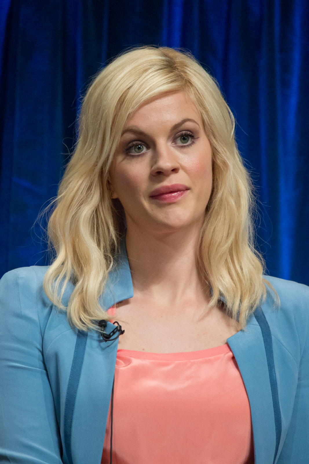 Georgia King at the PaleyFest 2013 panel on the TV show "The New Normal"